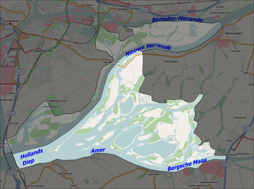 Map of the Brabant part of Dutch National Park De Biesbosch. The background map is taken from . The boundary was drawn by me using landmarks in the OSM map that the boundary follows (water, roads etc).